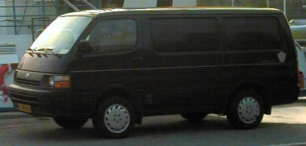 Photo taken by me in Helsingør 24 Sept 2005.MEAN